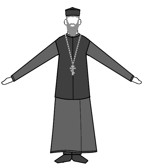 Eastern Orthodox Priest wearing a grey zostikon and a black kontorasion